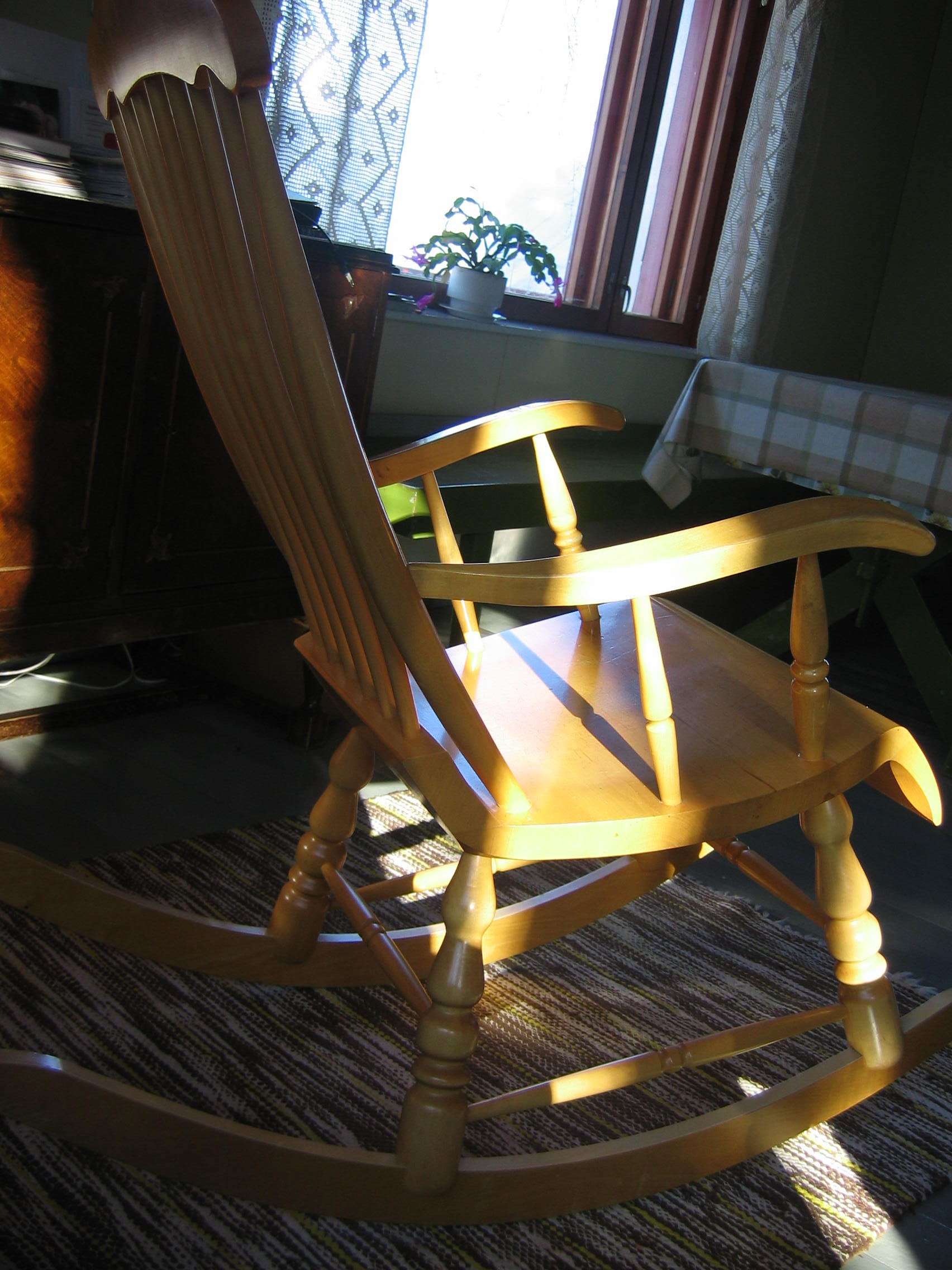 Typical Finnish wooden rocking chair.